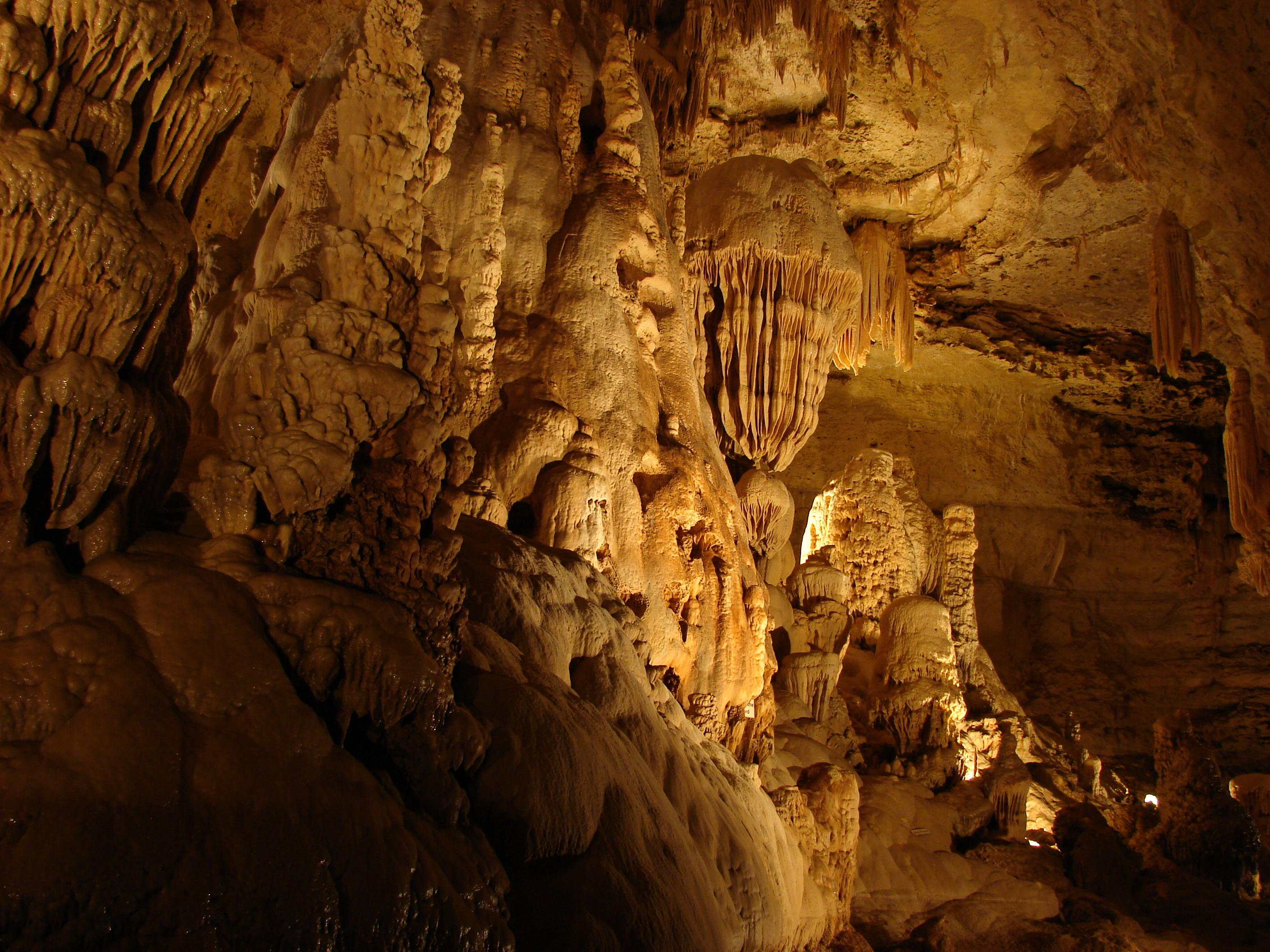 Picture taken by me in July, 2006